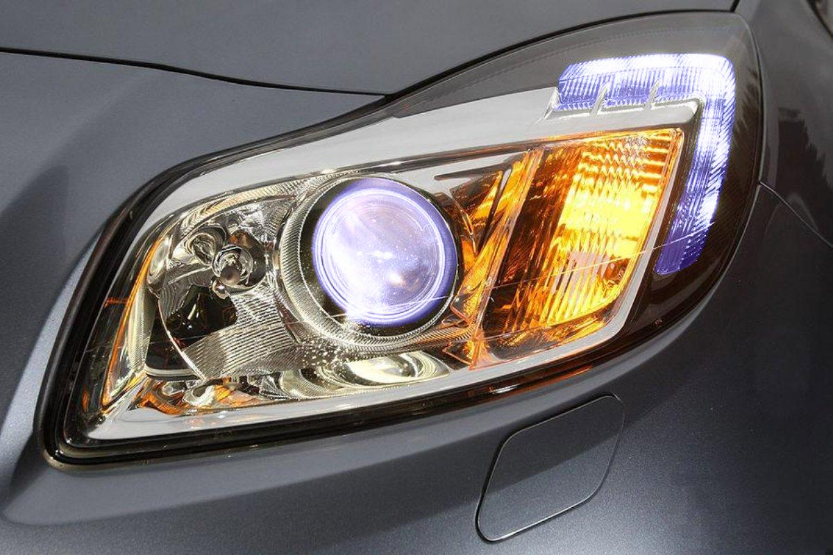 a Car with Led's day lights (Opel Insignia)